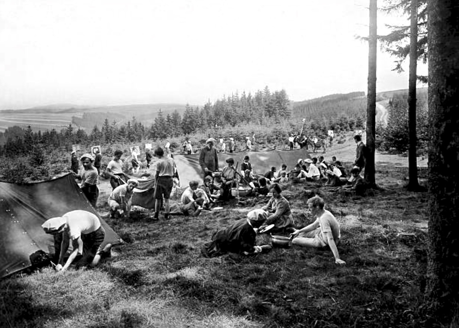 Tent Camp of Freie Schulgemeinde (= Free School Community) from Wickersdorf near Saalfeld in the Thuringian Forest. Pupils and teachers wore white berets.